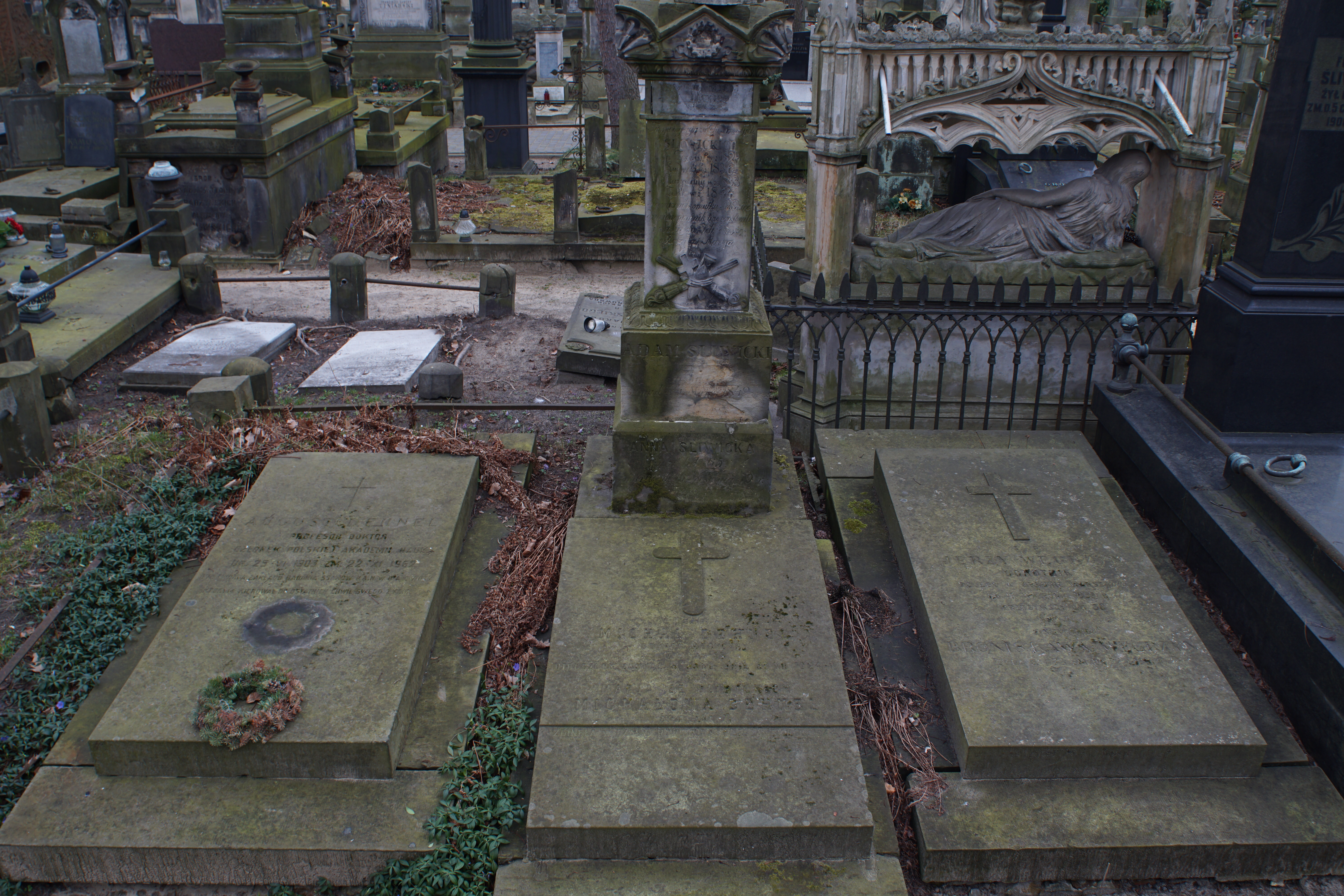 The grave of August Dehnel at the Powązki Cemetery (section 8, row 4, grave 11, 12, 13)